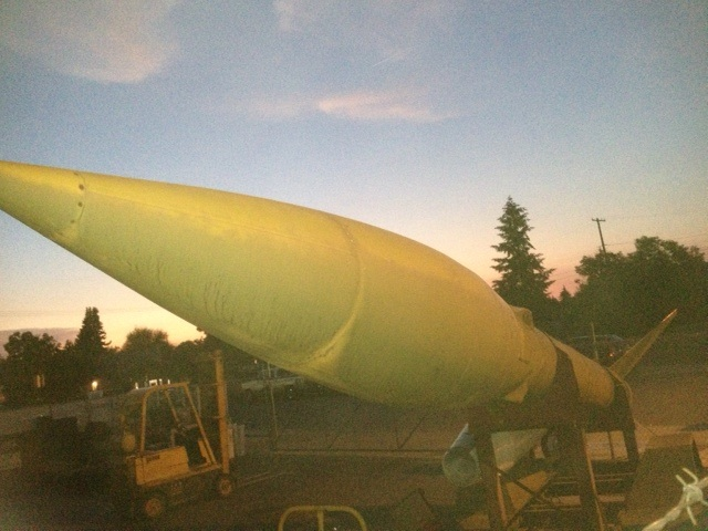 honestjohnhillyard